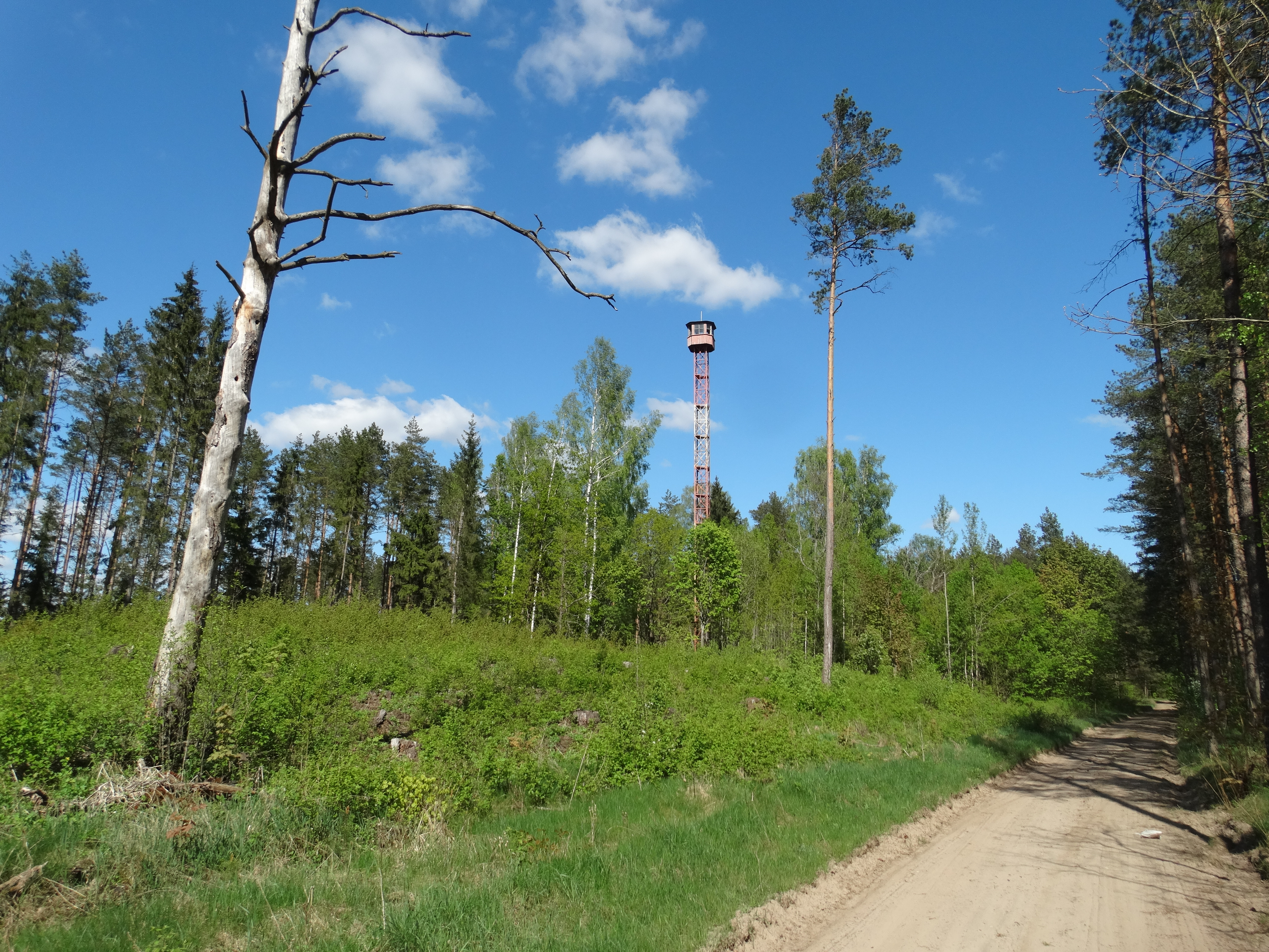 Observation tower, Agurkiškė, Kazlų Rūda municipality, Lithuania